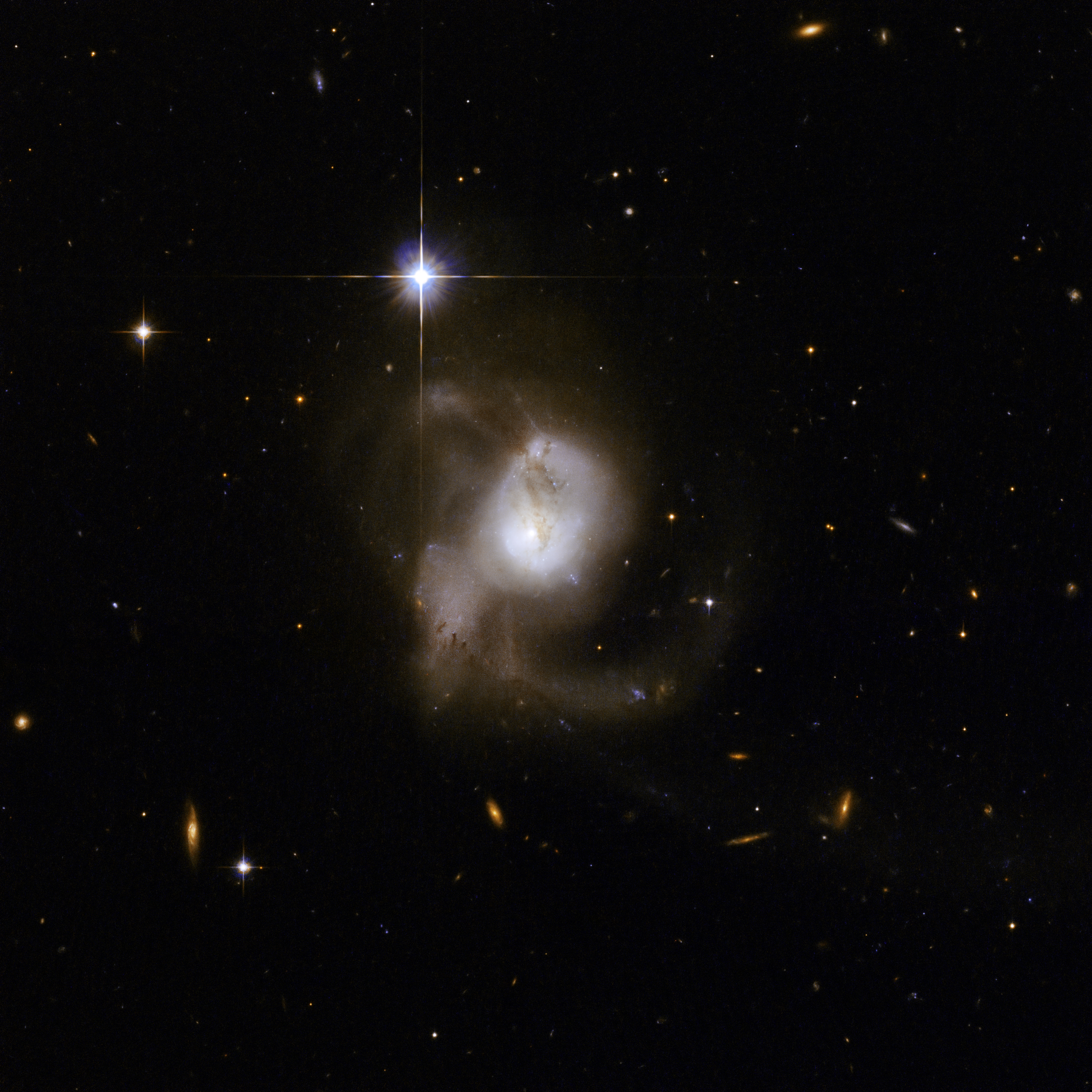 ESO 239-2 is most likely the result of a cosmic collision or a lengthy merger process that will eventually result in an elliptical galaxy. The messy intermediate stage, captured here, is a galaxy with long, tangled tidal tails that envelope the galaxy's core. This image is part of a large collection of 59 images of merging galaxies taken by the Hubble Space Telescope and released on the occasion of its 18th anniversary on 24th April 2008. About the objectObject nameESO 239-2, ESO 239-IG002, AM 2246-490Object descriptionInteracting GalaxiesPosition (J2000)22 49 40.13 -48 50 56.0ConstellationGrusDistance550 million light-years (150 million parsecs)About the dataData descriptionThe Hubble image was created using HST data from proposal 10592: A. Evans (University of Virginia, Charlottesville/NRAO/Stony Brook University)InstrumentACS/WFCExposure date(s)May 3, 2006 and July 16, 2006Exposure time49 minutesFiltersF435W (B) and F814W (I)